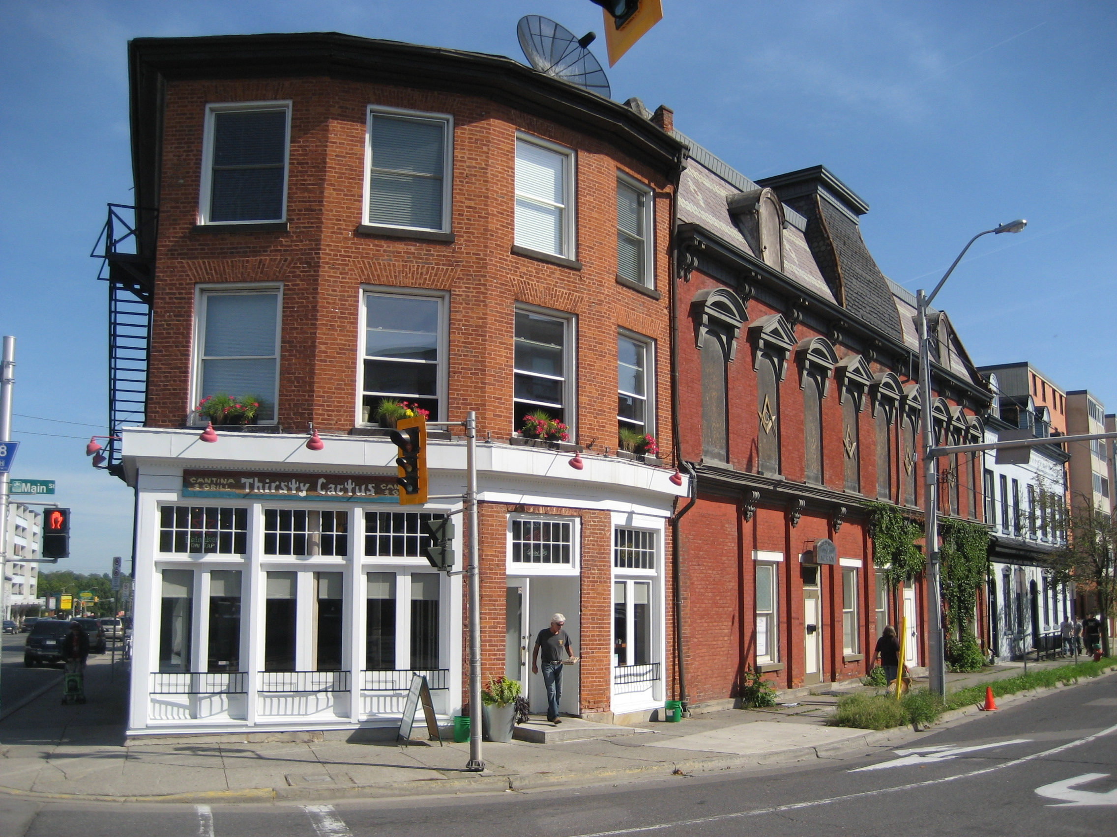 Thirsty Cactus Cantina & Grill/ Masonic Hall (Valley Lodge 100, A.F. & A.M.), King Street West, Dundas, Hamilton, Canada.